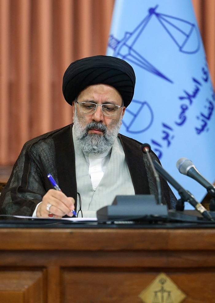 Ebrahim Raisi in meeting with Medias